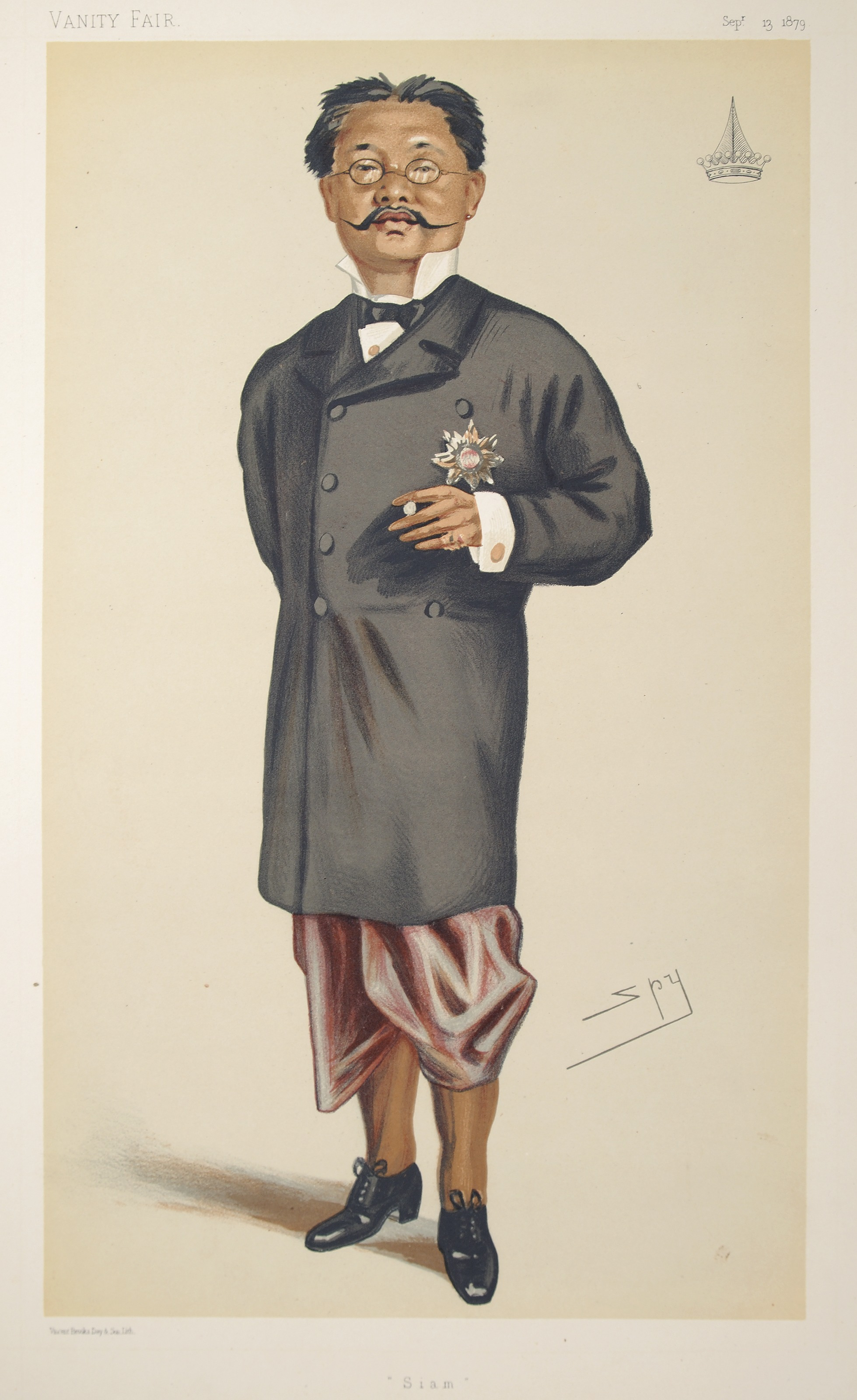 Statesmen No.313: Caricature of HE Phya Bhaskarawongse. Special Envoy to England. Caption reads: "Siam"